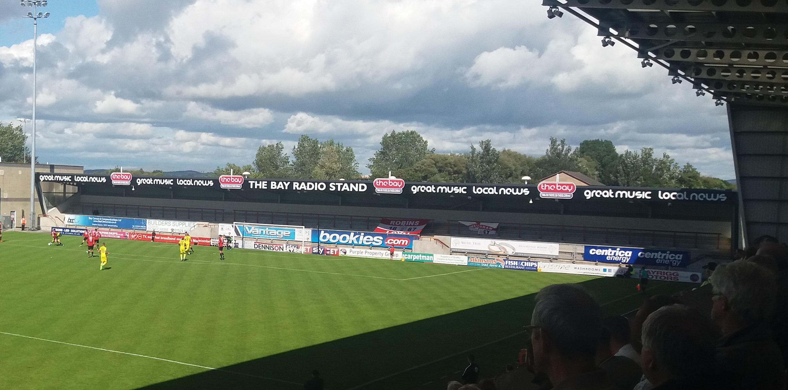 Globe Arena Bay Radio stand